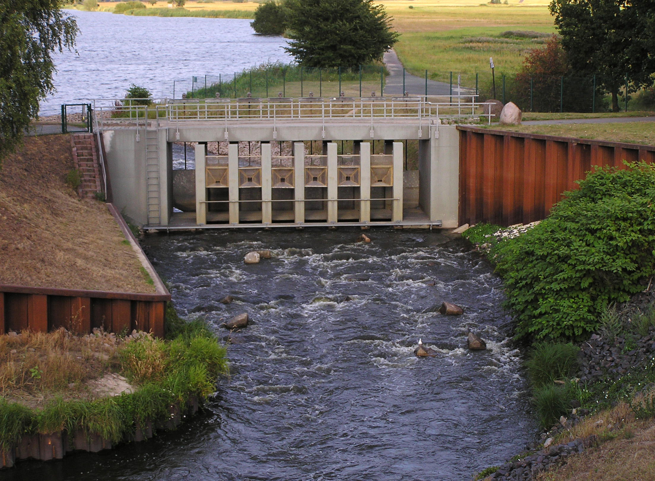 Fish ladder at the barrage near Geesthacht (Germany), river Elbe